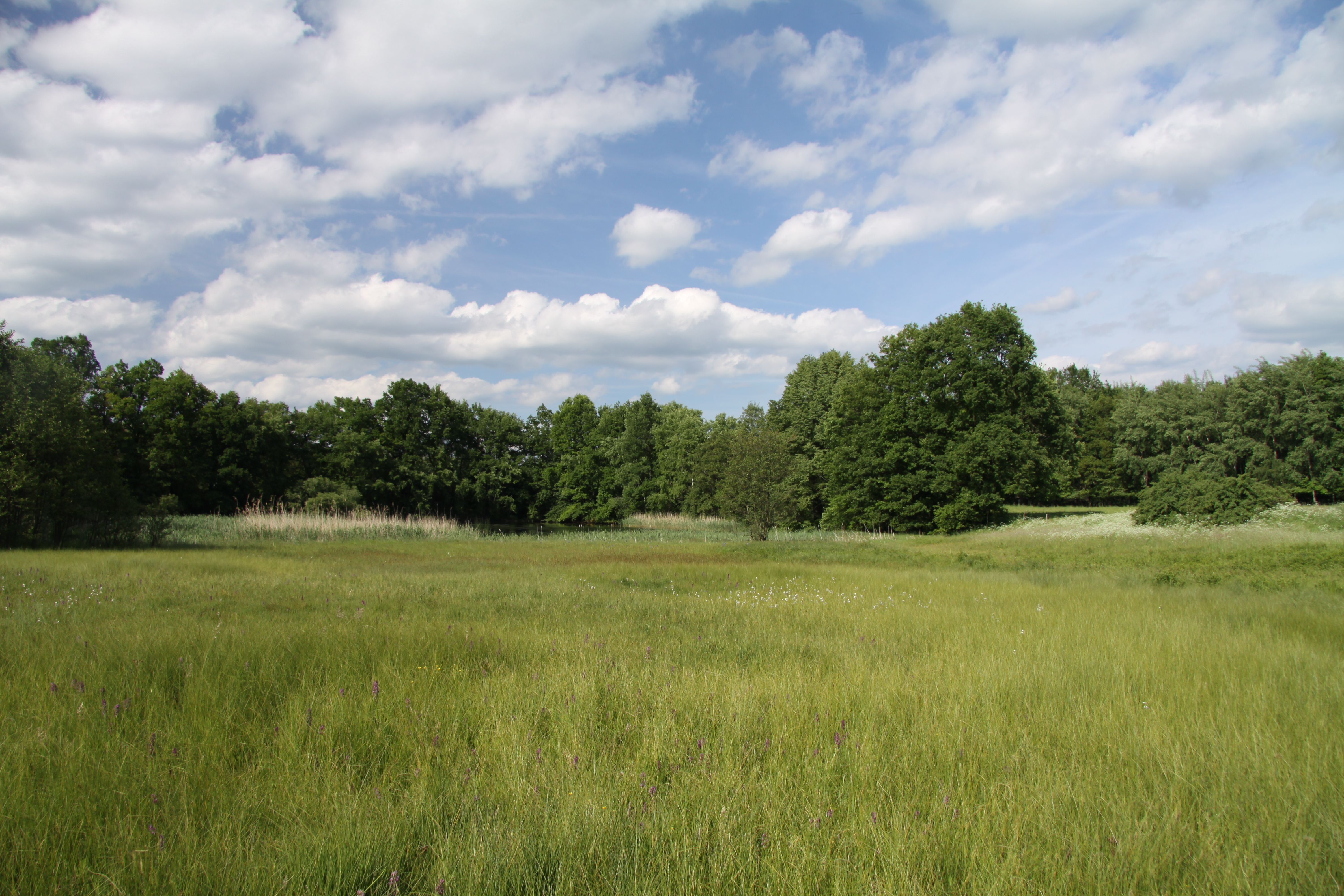 Natural monument Koubovský rybník near Lhenice, Prachatice District, Czech Republic - Google Maps - Google Earth